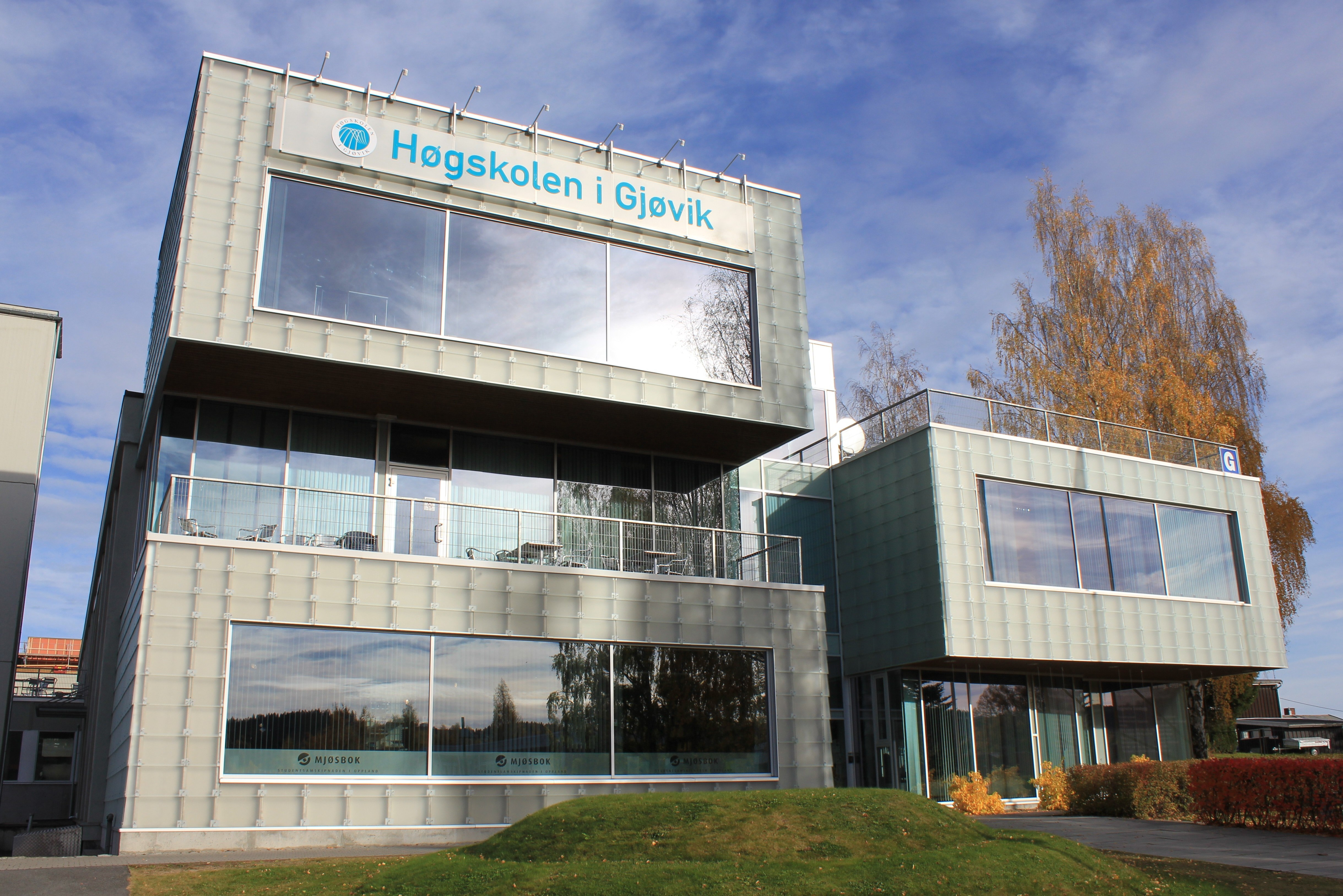 Gjøvik College in Norway.